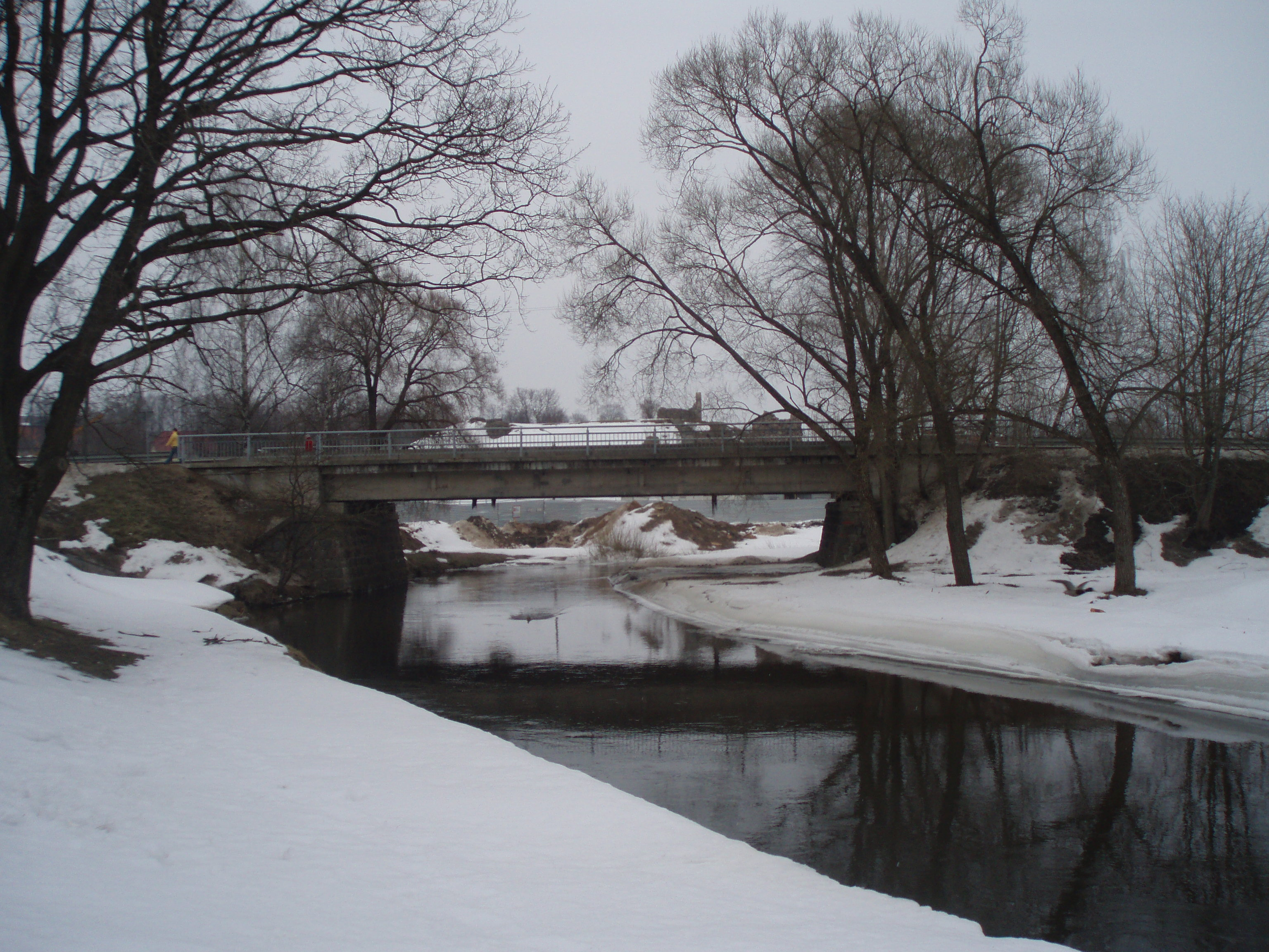 Bridge of Dārzu Street in Rēzekne.